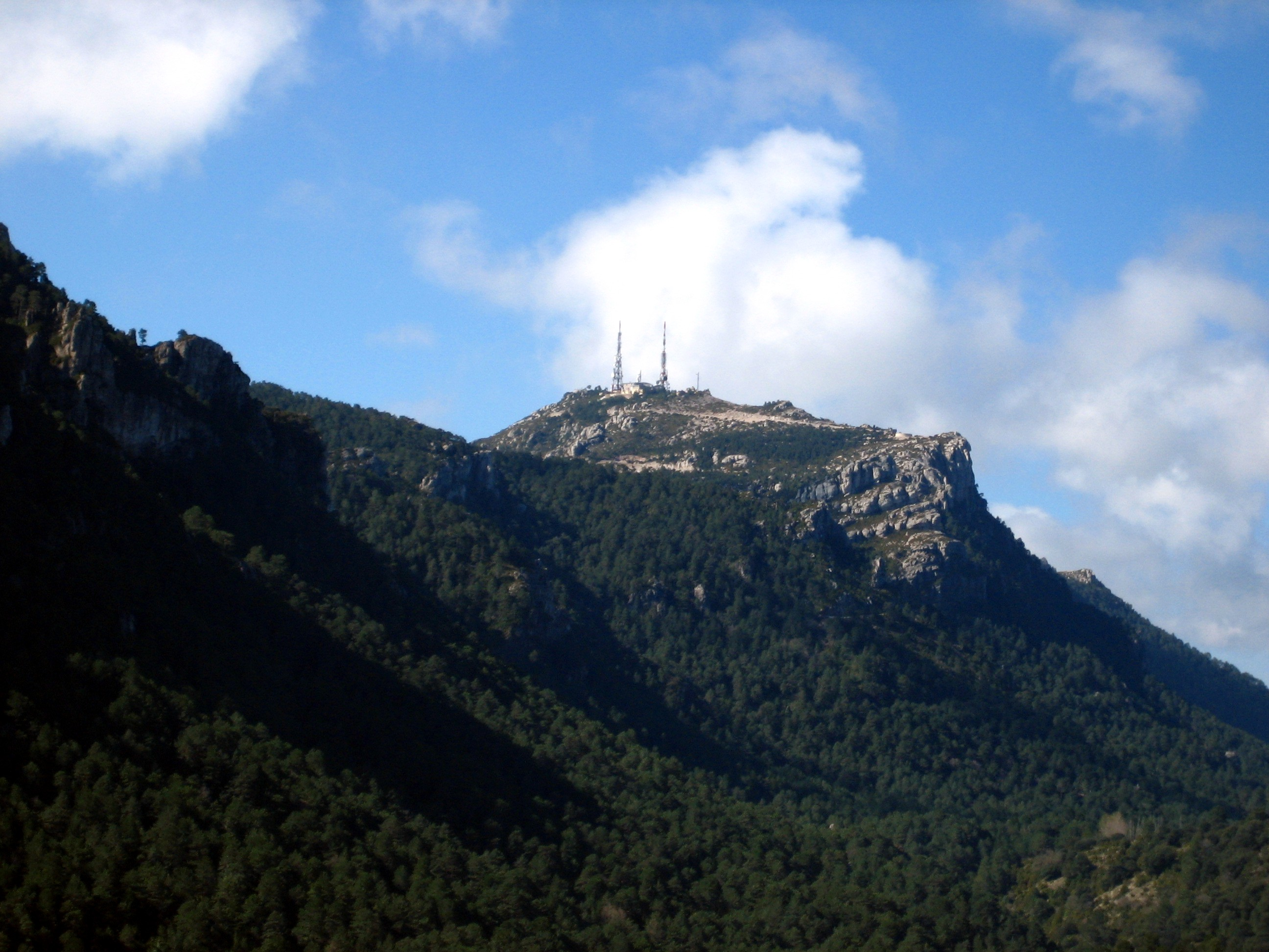 Mount Caro (1,442 m), Ports de Tortosa Beseit, Tarragona, Catalonia, Spain (40°48′11.18″N 0°20′35.13″E / 40.8031056°N 0.3430917°E)